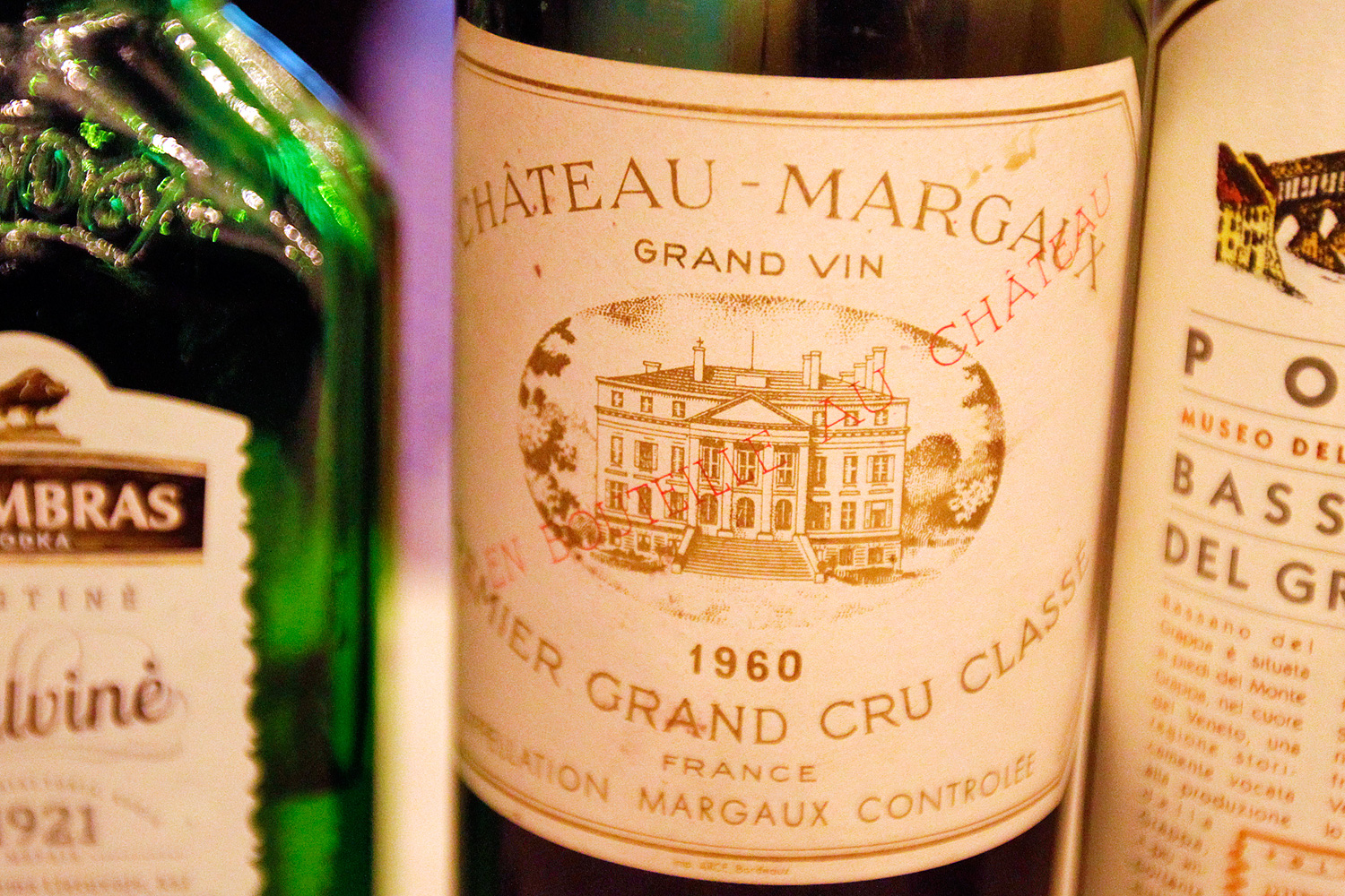 Wine Chateau Margaux (1960)